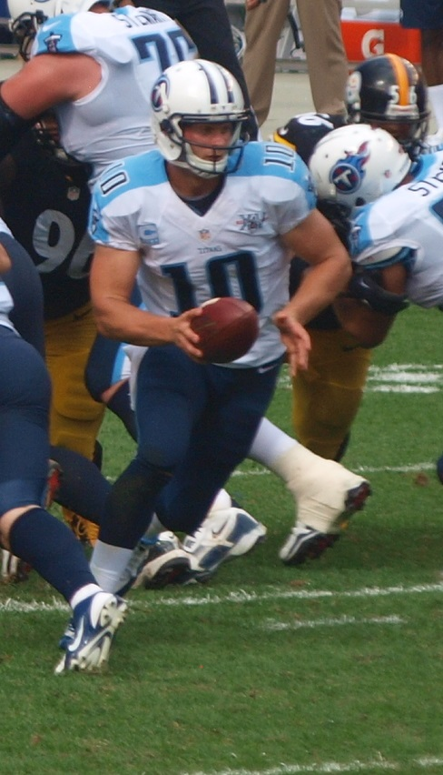 Jake Locker (#10) hands off the football vs. Pittsburgh Steelers, 09.13.2013